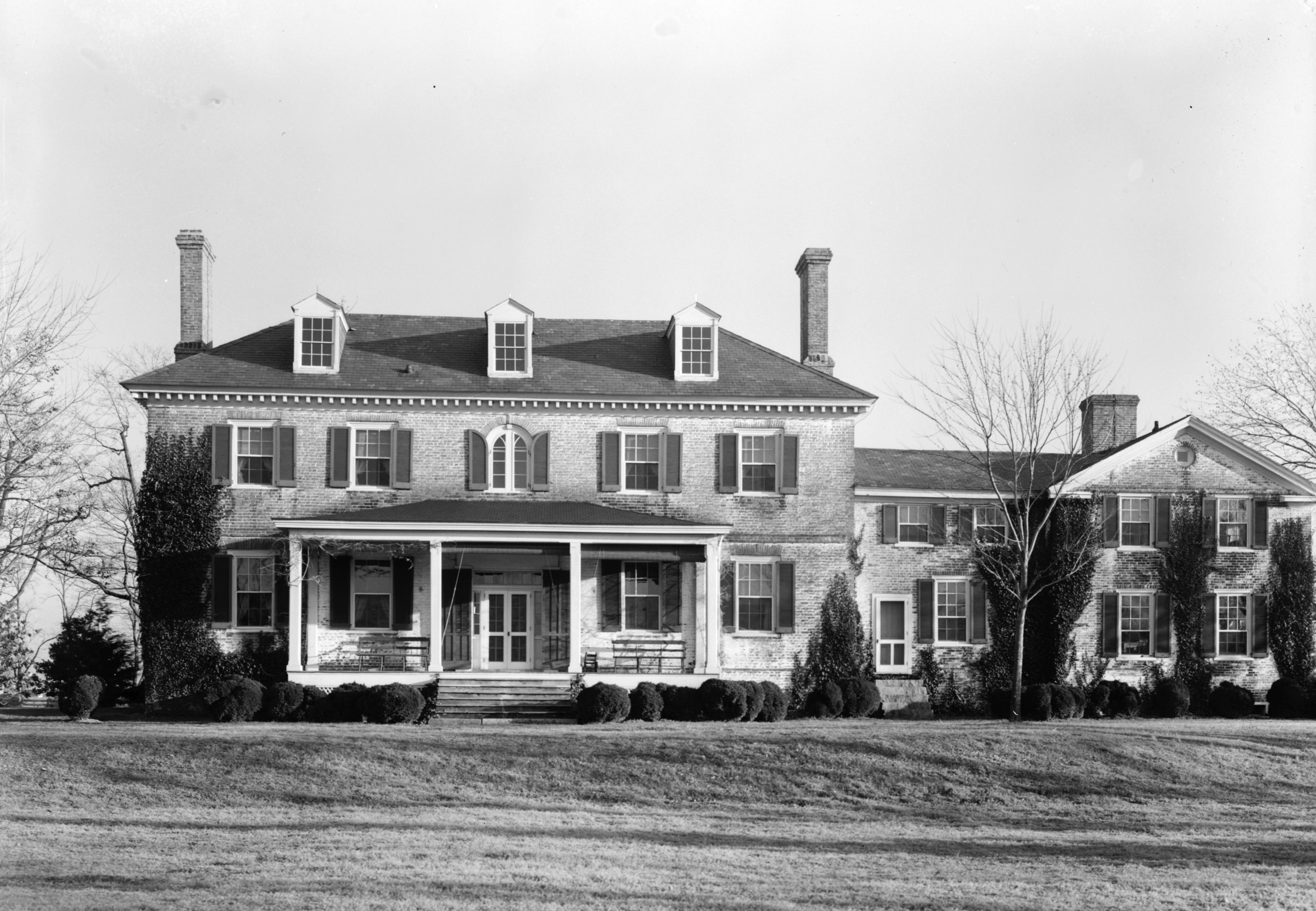 Front of Readbourne, located northwest of Centreville in Queen Anne County, Maryland, United States. Built in 1791, it is listed on the National Register of Historic Places.